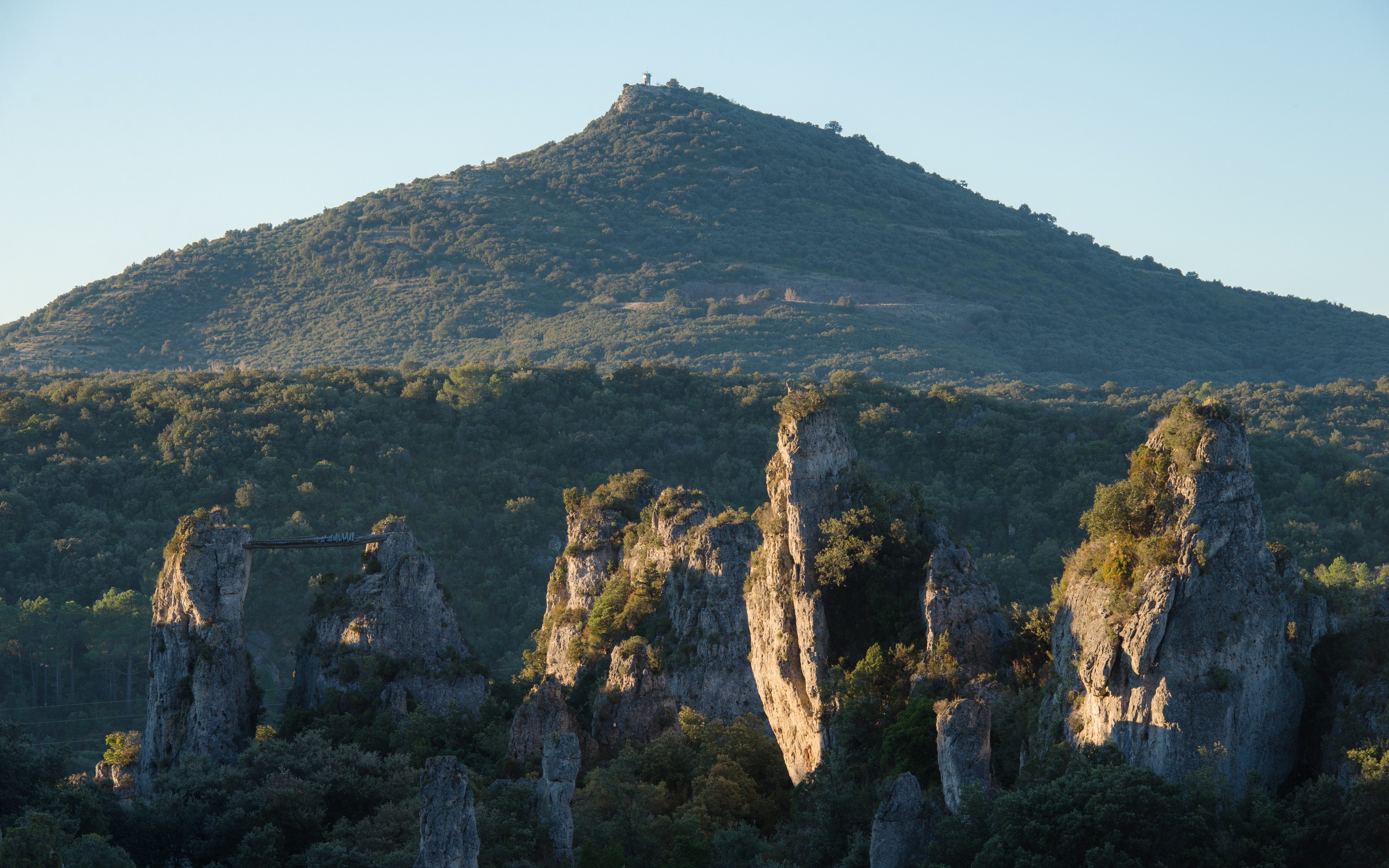 The "Cirque de Mourèze" is a steephead of whitch the chaotic appearance was made by the erosion of dolomite rocks. Mourèze, Hérault, France.